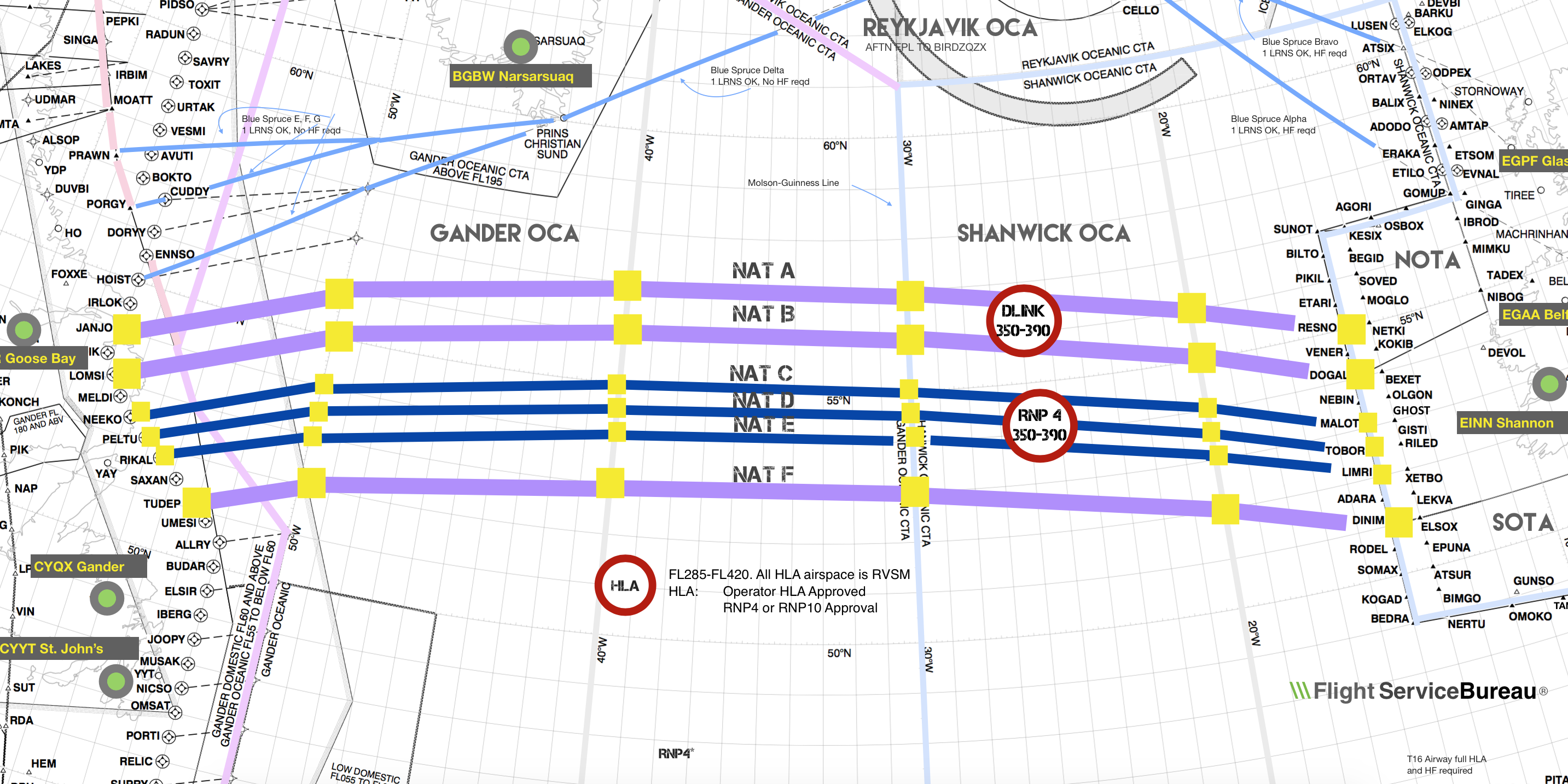 North Atlantic Tracks westbound, 24th February 2017